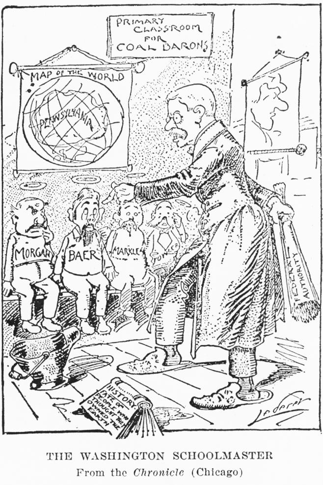 "The Washington Schoolmaster." An editorial cartoon about the Coal strike of 1902, a strike by the United Mine Workers of America in the anthracite coal fields of eastern Pennsylvania. In the cartoon a sign on the wall states, "Primary Classroom for Coal Barons," and a world map shows a disproportionately large state of Pennsylvania. President Theodore Roosevelt intervened in the strike, and the cartoon depicts him as poised to dole out punishment to industry; he is holding a switch labeled "Federal Authority." Shown on the bench are industry leaders: financier J. P. Morgan; George F. Baer, President of the Philadelphia and Reading Railroad; and two coal company executives, John Markle (G.B. Markle & Co.) and T.P. Fowler (Scranton Coal Co. & Elk Hill Coal & Iron Co.).